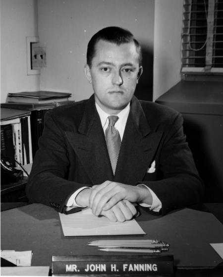 Portrait of John H. Fanning, principle industrial relations advisor to the Department of the Army, in September 1950.